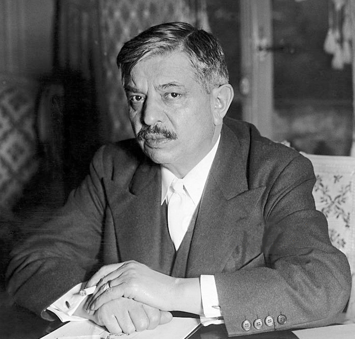 Portrait Of Pierre Laval In 1940, In His Office As Vice Council President At The Hotel Du Parc In Vichy.